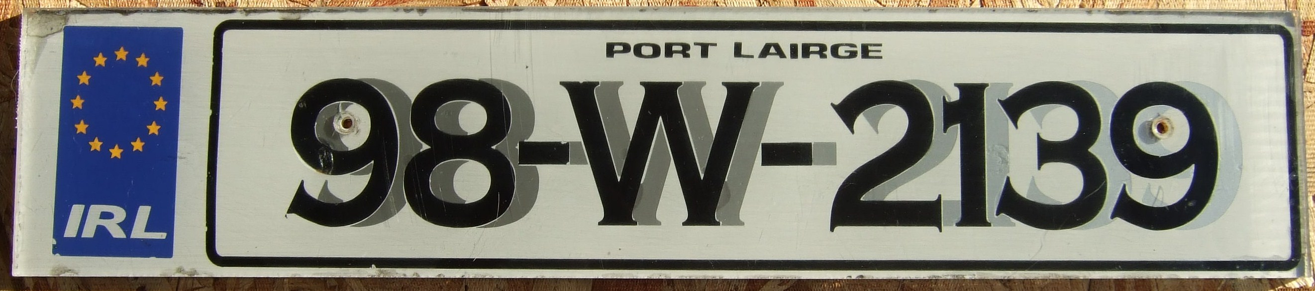 This very thick plastic license plate from Waterford City, Ireland is non-reflective with the serial number fonts giving a shadow effect. Depending on what angle you look at the plate the shadow effect will appear either darker of lighter. In this pic I took at a bit of an angle to show how the shadow effect appears darker to the left and fades to the right. This plate was first issued in 1998 as denoted by the prefix "98" followed by the Waterford City code of "W" and the serial number of "2139" as a suffix. The name Waterford appears top center in Gaelic.